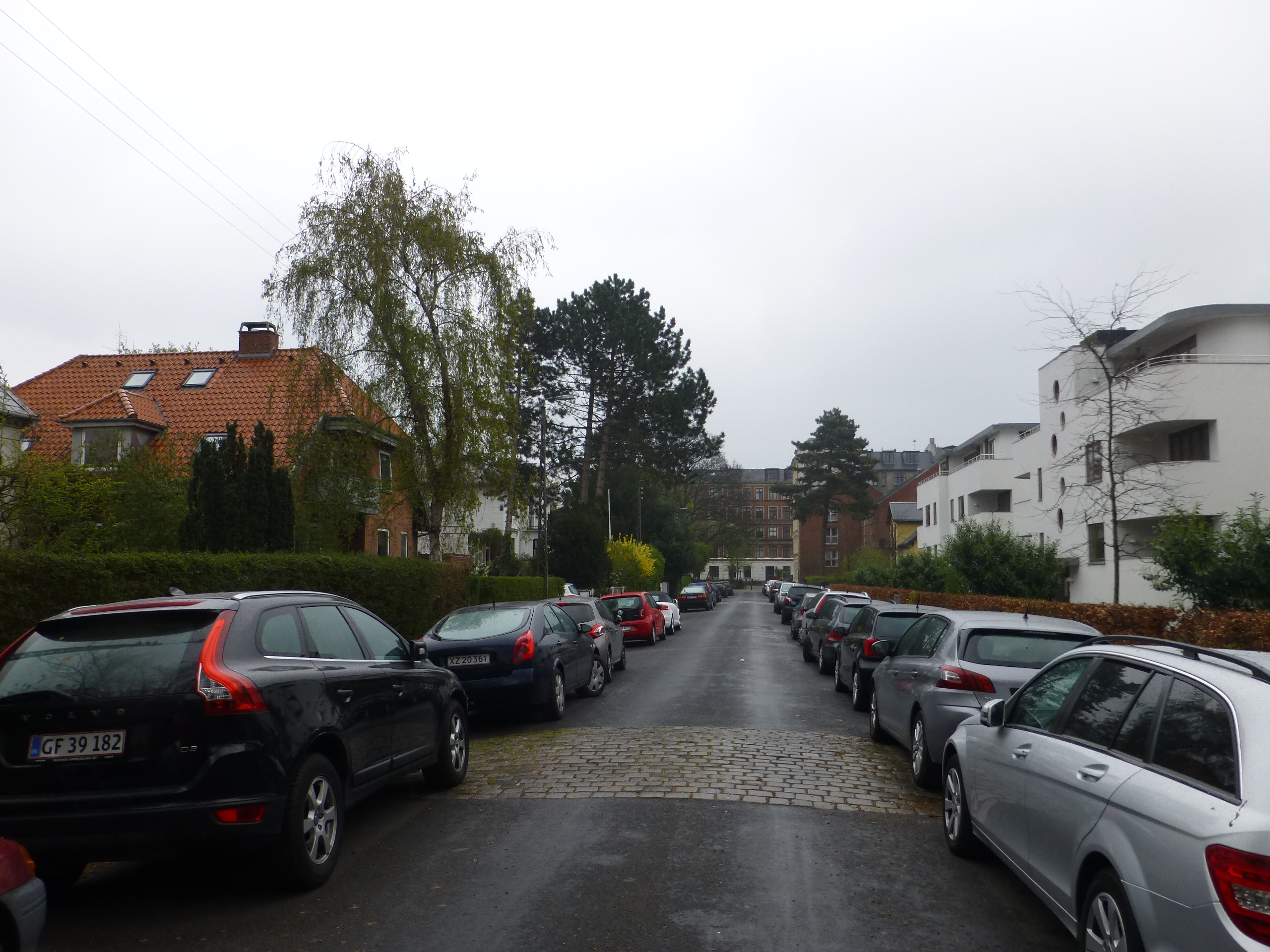 The street Rosenvængets Alle in Østerbro in Copenhagen.